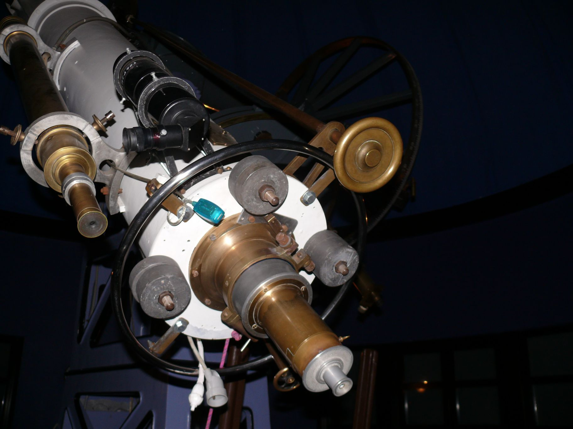 Refracting telescope at Lille observatory (Nord, France).